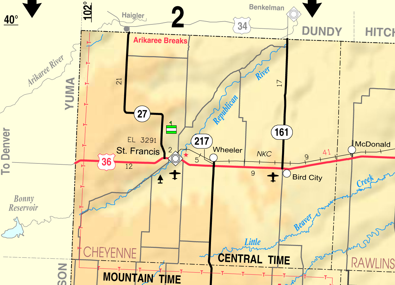 This map of Cheyenne County, Kansas, USA, is copied at a resolution of 300 pixels/inch from the original PDF file.